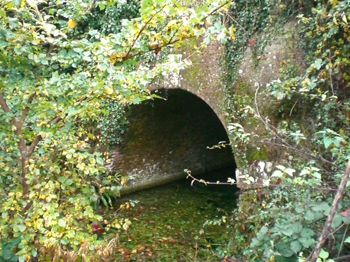 The eastern portal of the disused Greywell Tunnel. Near the centre of Greywell village, Hampshire, UK.